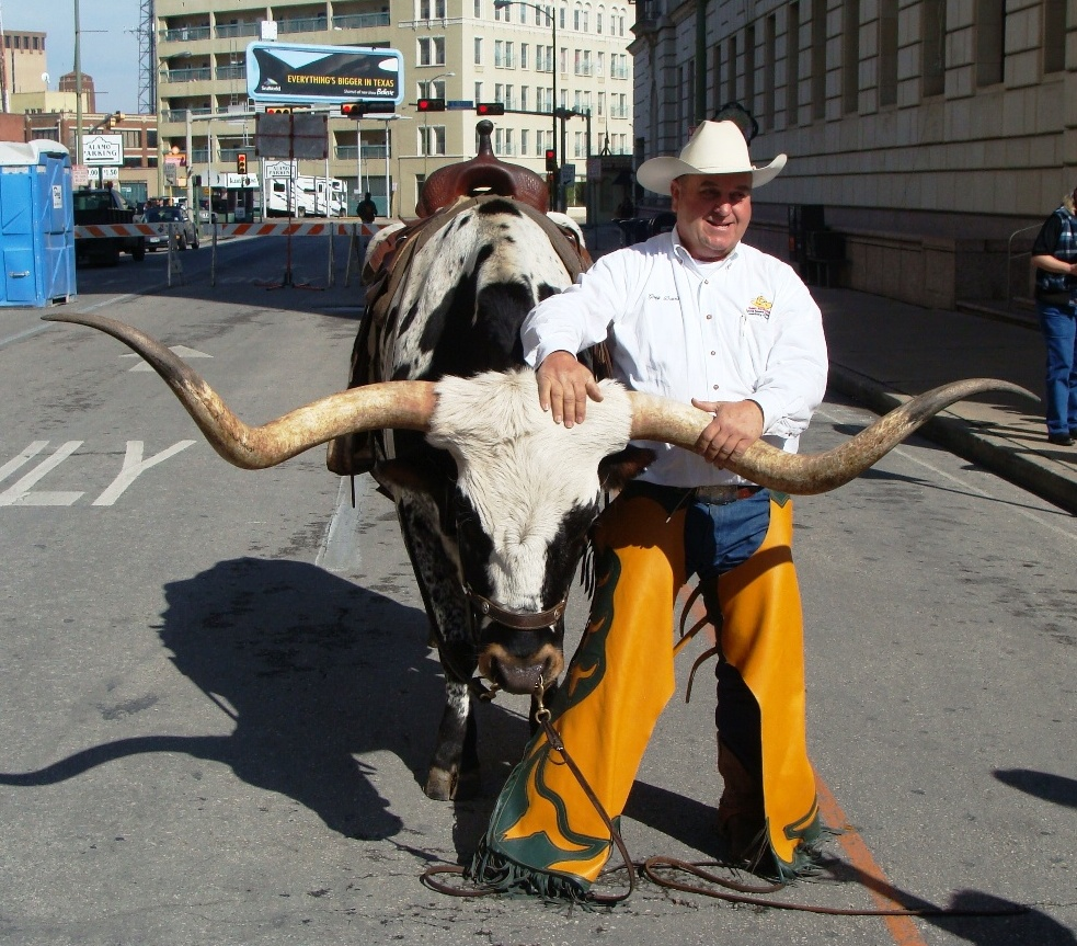 A Texas Longhorn, in San Antonio, Texas